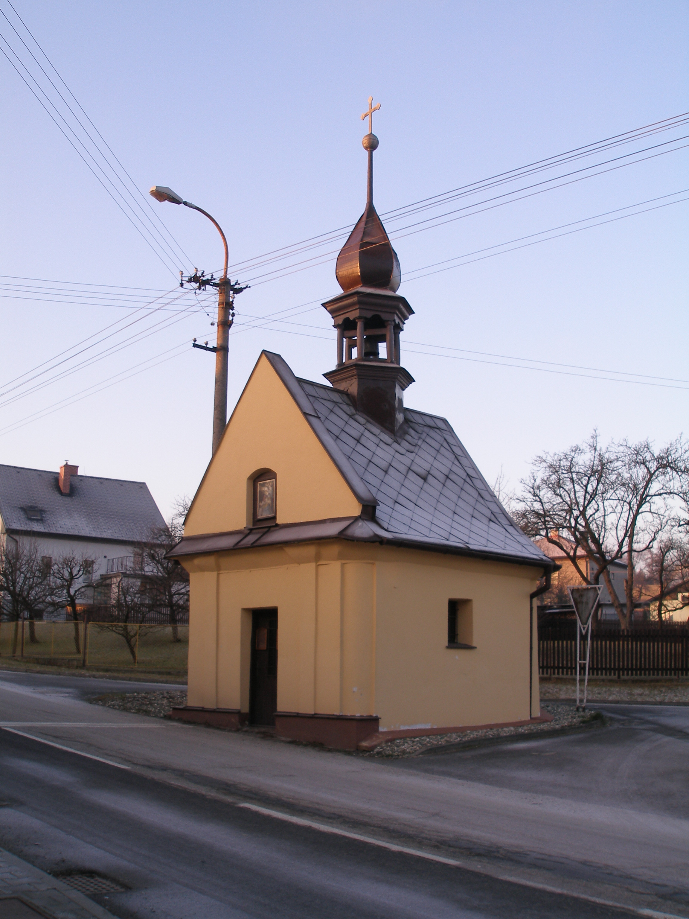 Old chapel in centre of Dolní Lhota, Ostrava-City District, Czech Republic